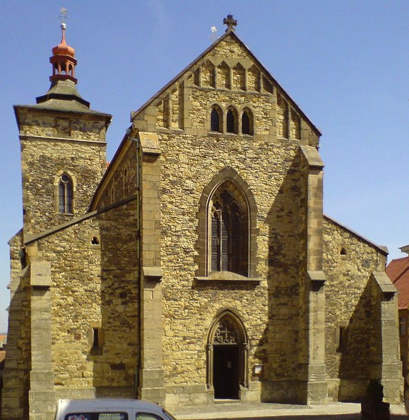 Front of Saint Stephen church in Kouřim, Kolín District, Czech Republic